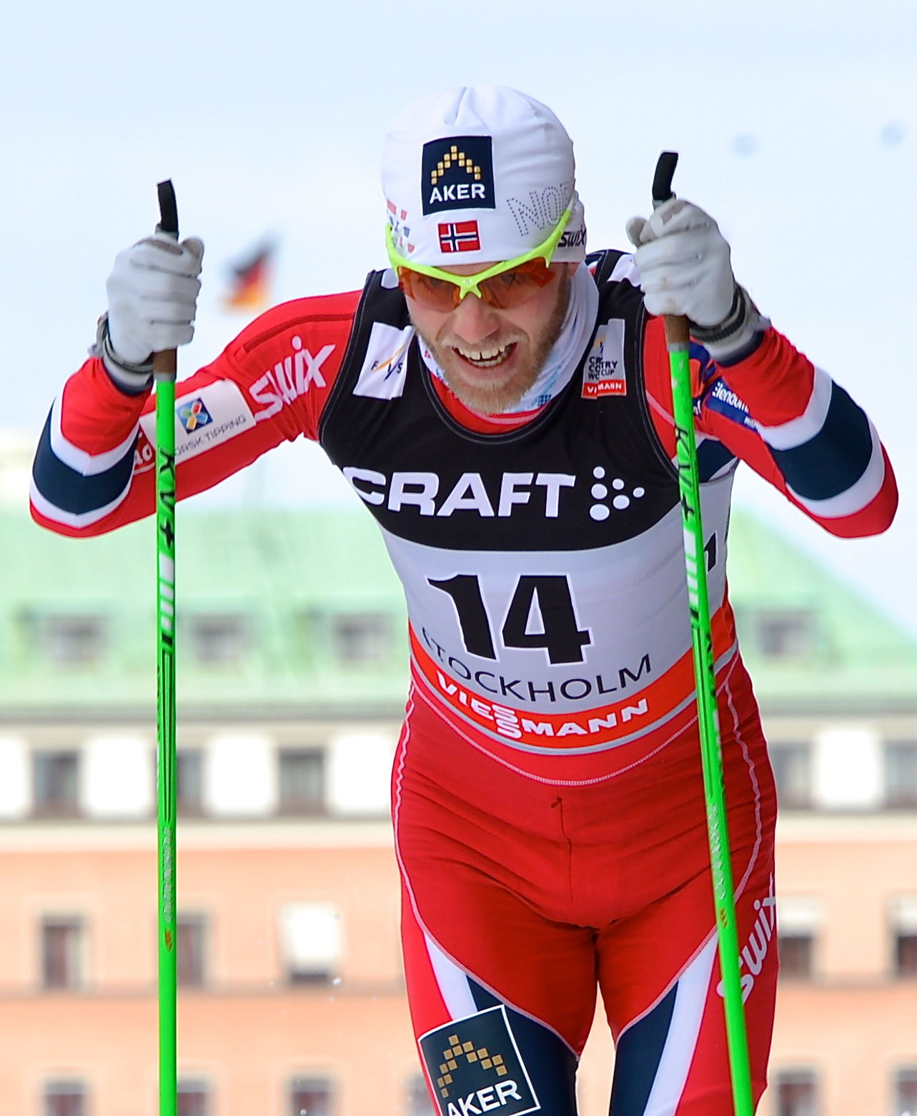 Martin Johnsrud Sundby at the Royal Palace Sprint, part of the FIS World Cup 2012/2013, in Stockholm on March 20, 2013.